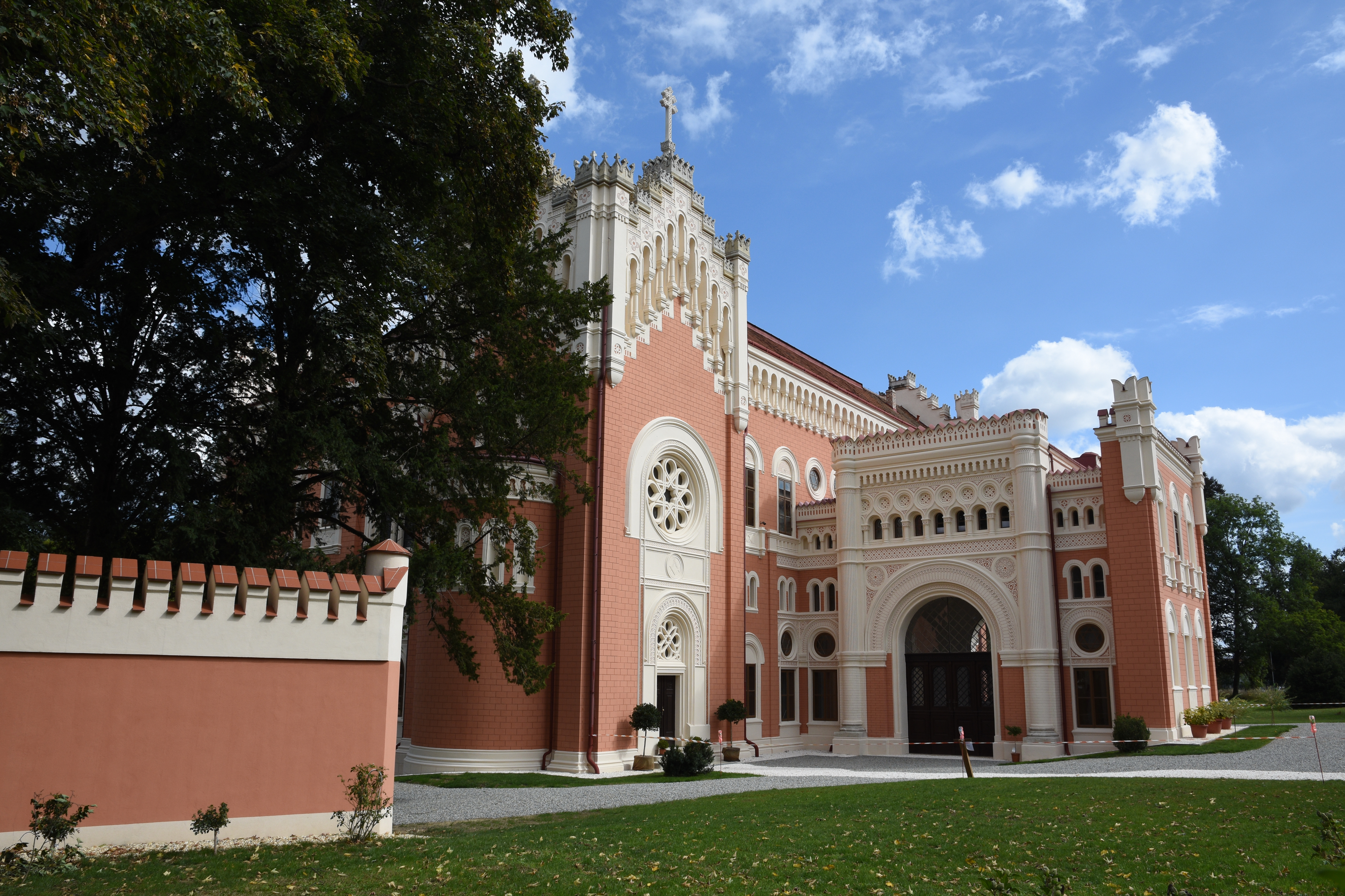 Castle Rotenturm